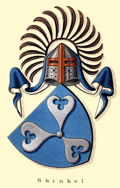 Coat of arms of the Skinkel (with "søblad") family.